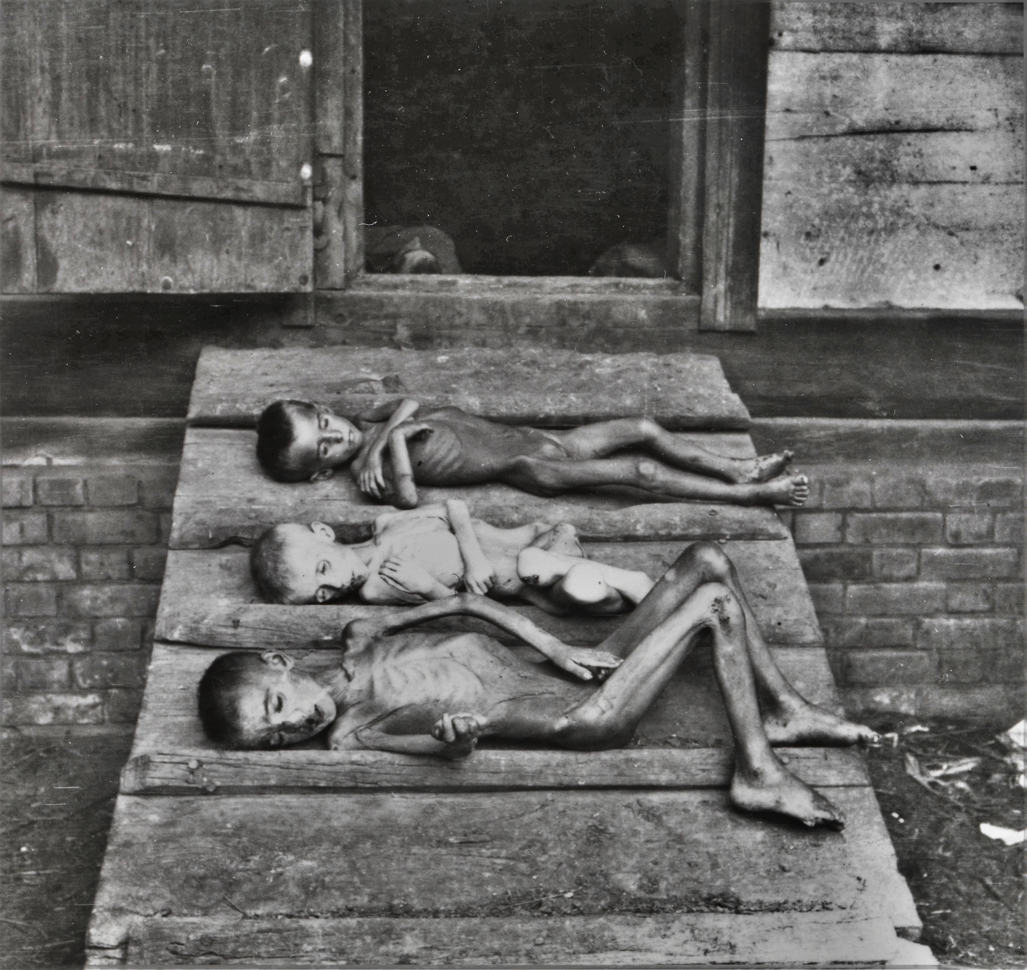 Three children who are dead from starvation. One of the pictures from Russia in November and December 1921. On assignment from the International Red Cross, Fridtjof Nansen visited the regions that were the hardest hit by famine.